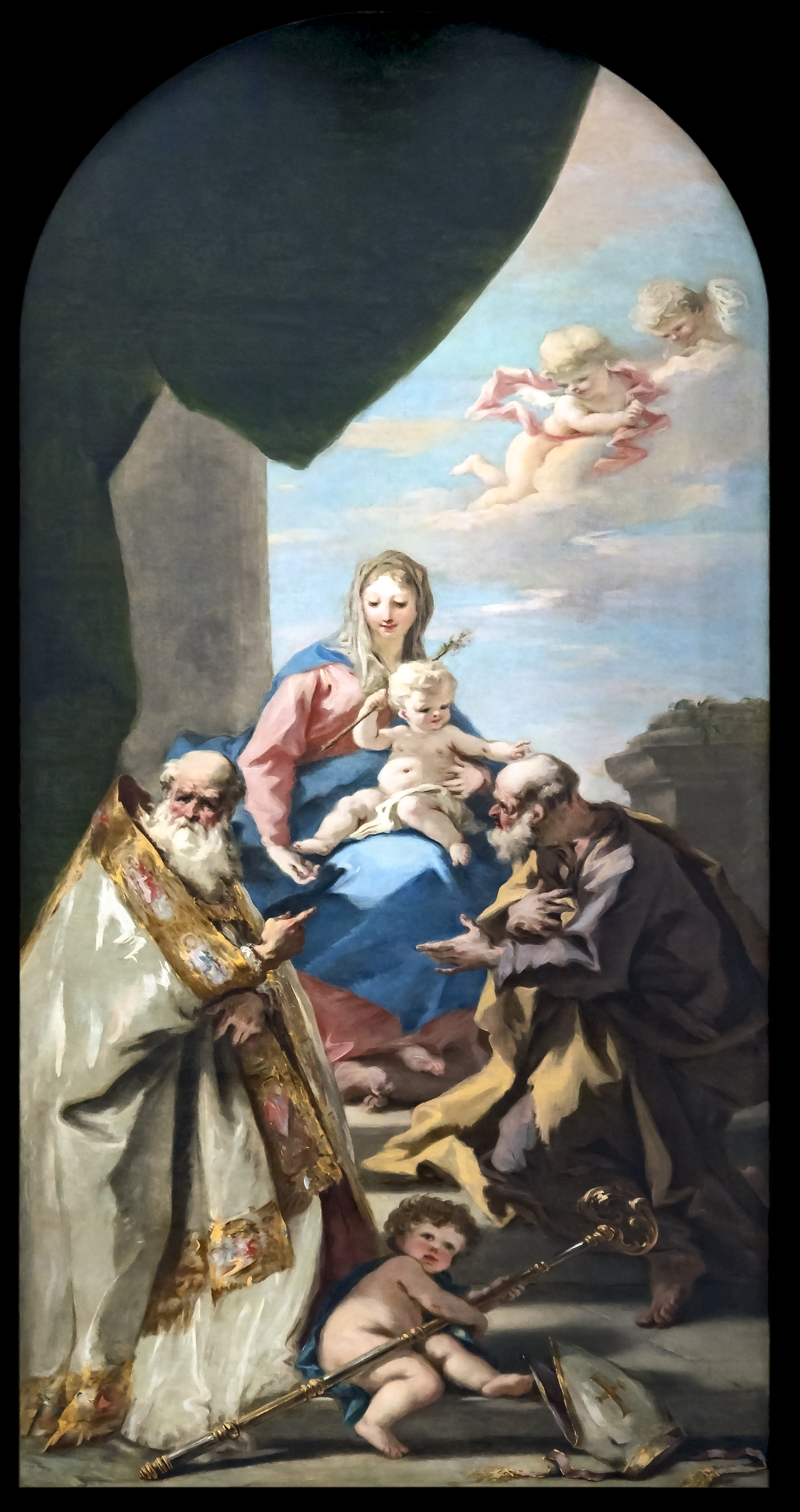 The fourth chapel dedicated to S. Giuseppe (Saint Joseph). The altar and the marble work of the altarpiece are due to Tommaso Bonazza. The painting of the altarpiece is by Giovanni Antonio Pellegrini, it represents a Virgin with the Child, with S. Cesareo on the left and S. Giuseppe, executed around 1716.